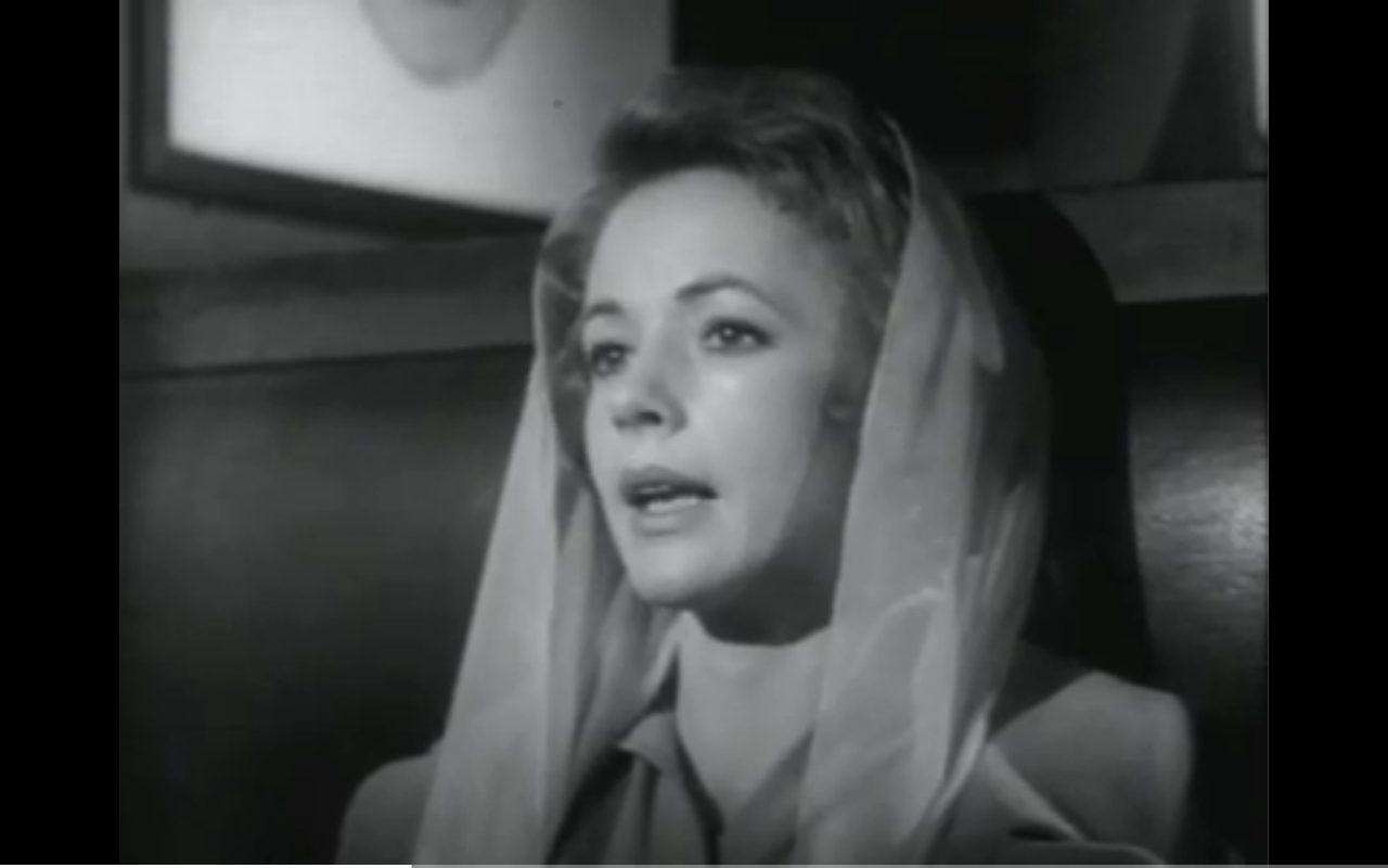 Trailer screenshot of The Hustler (1961).